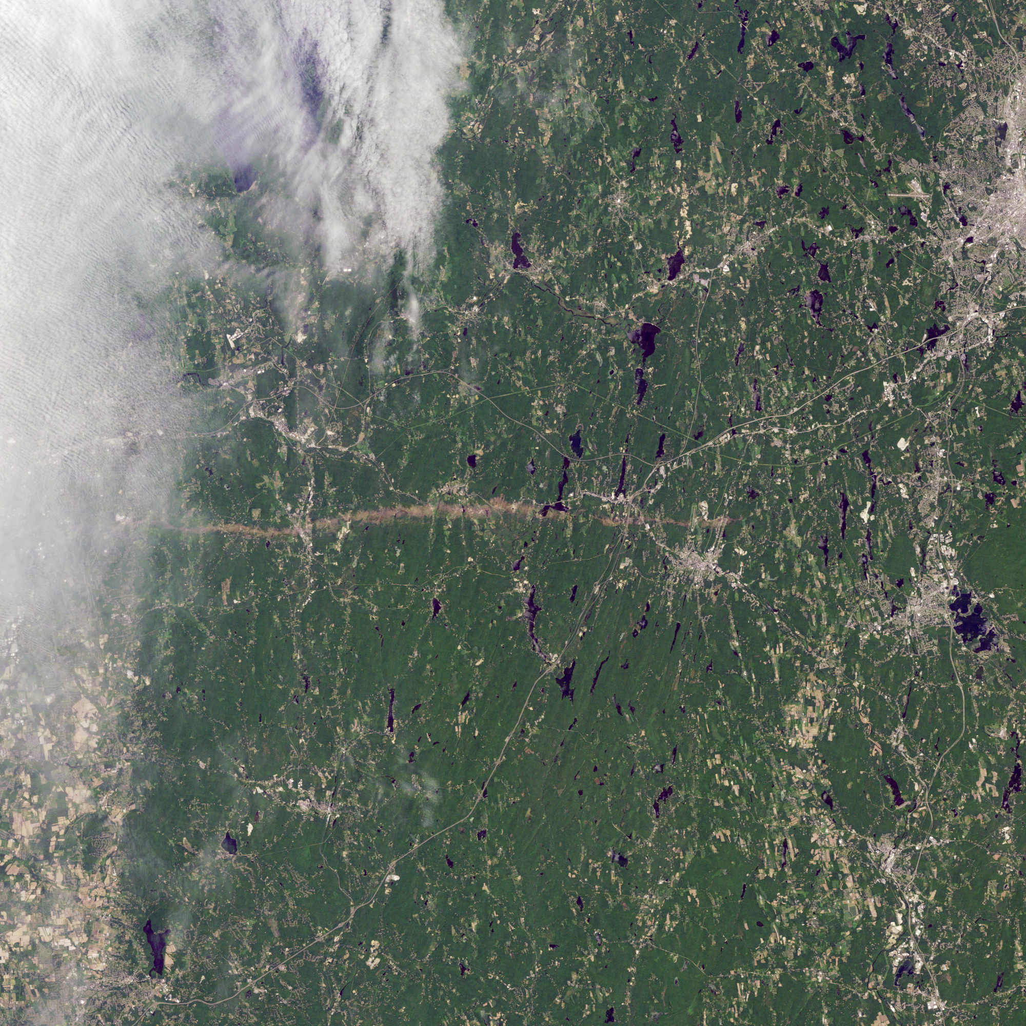 A view of a tornado path on June 5th, 2011. The tornado, which originated in Westfield, Massachusetts travelled thirty-nine miles east to Charlton, Massachusetts. The tornado itself occured on the afternoon of June 1st. The city of Worcester is to the northeast of the image. The path of the tornado crosses through rural towns before meeting up with U.S. Route 20 and paralleling the route for a few miles. It eventually crosses through Interstate 84 before ending in Charlton.